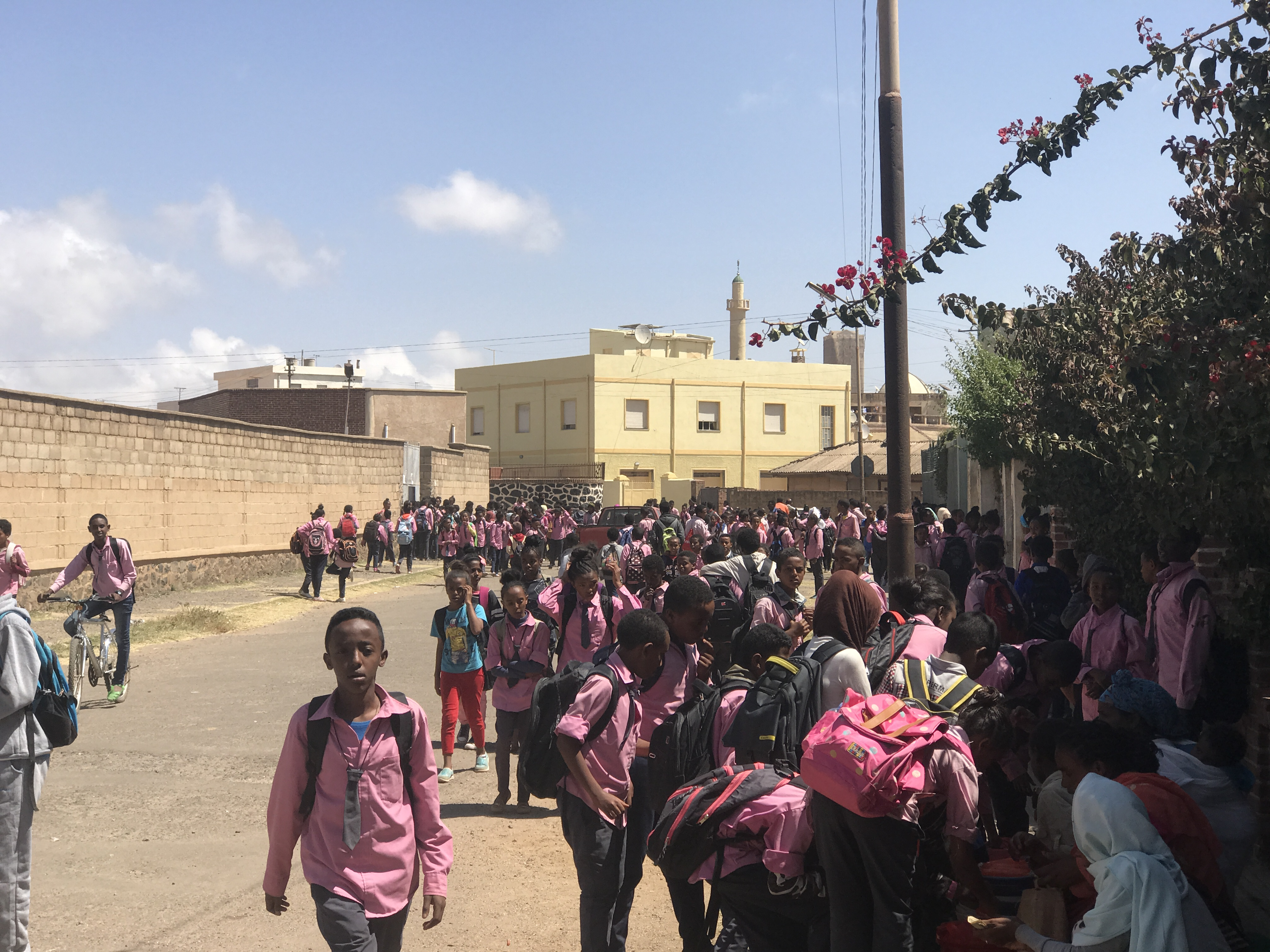 This is an image of "African people at work" from Eritrea